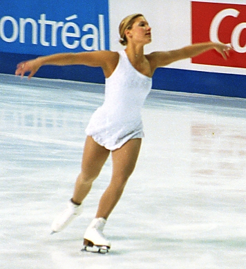 Michelle Currie skates her long program at the 2002 Canadian Championships in Hamilton, Ontario.